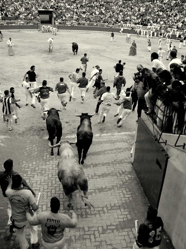 Sanfermines Vaquillas in Pamplona, Spain.